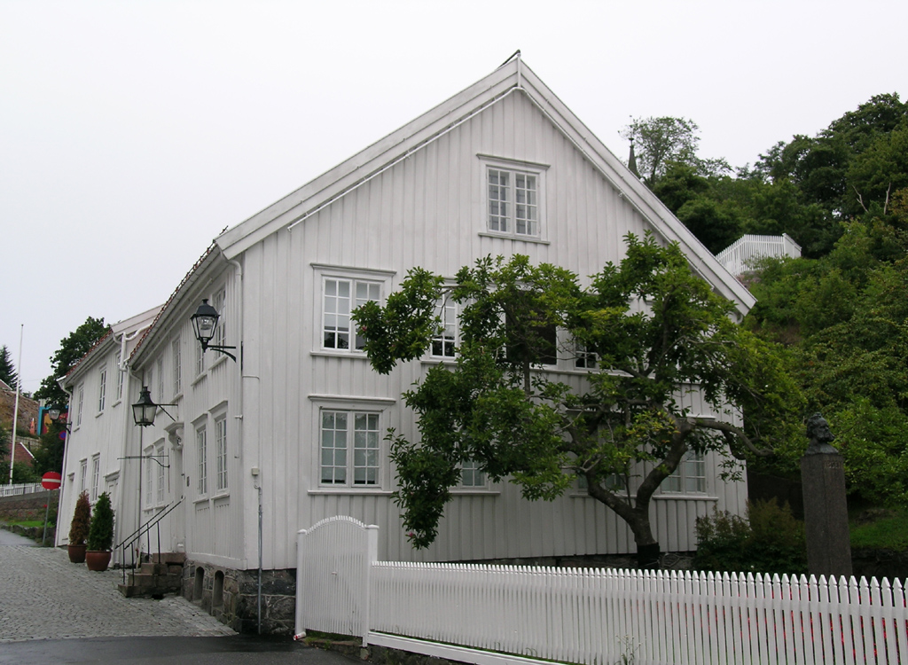 Grimstad town museum, Grimstad, Norway.